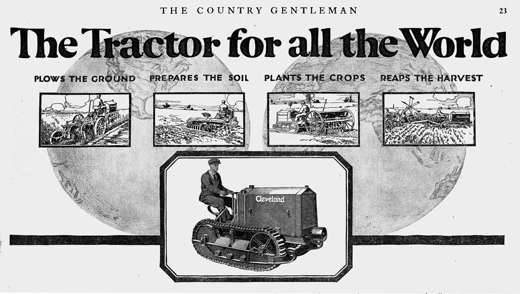 Cleveland Tractor . Ad in the May 25, 1918 issue of Country Gentleman magazine.